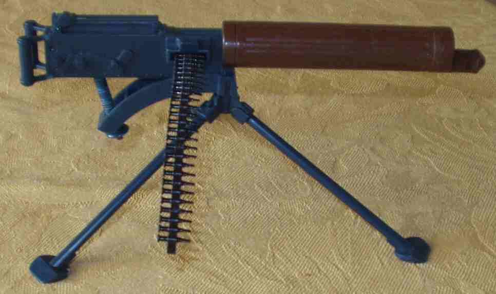 This is a Vickers machine gun by Palitoy from their "Action Man" toy range. Approximately 1/6th scale.